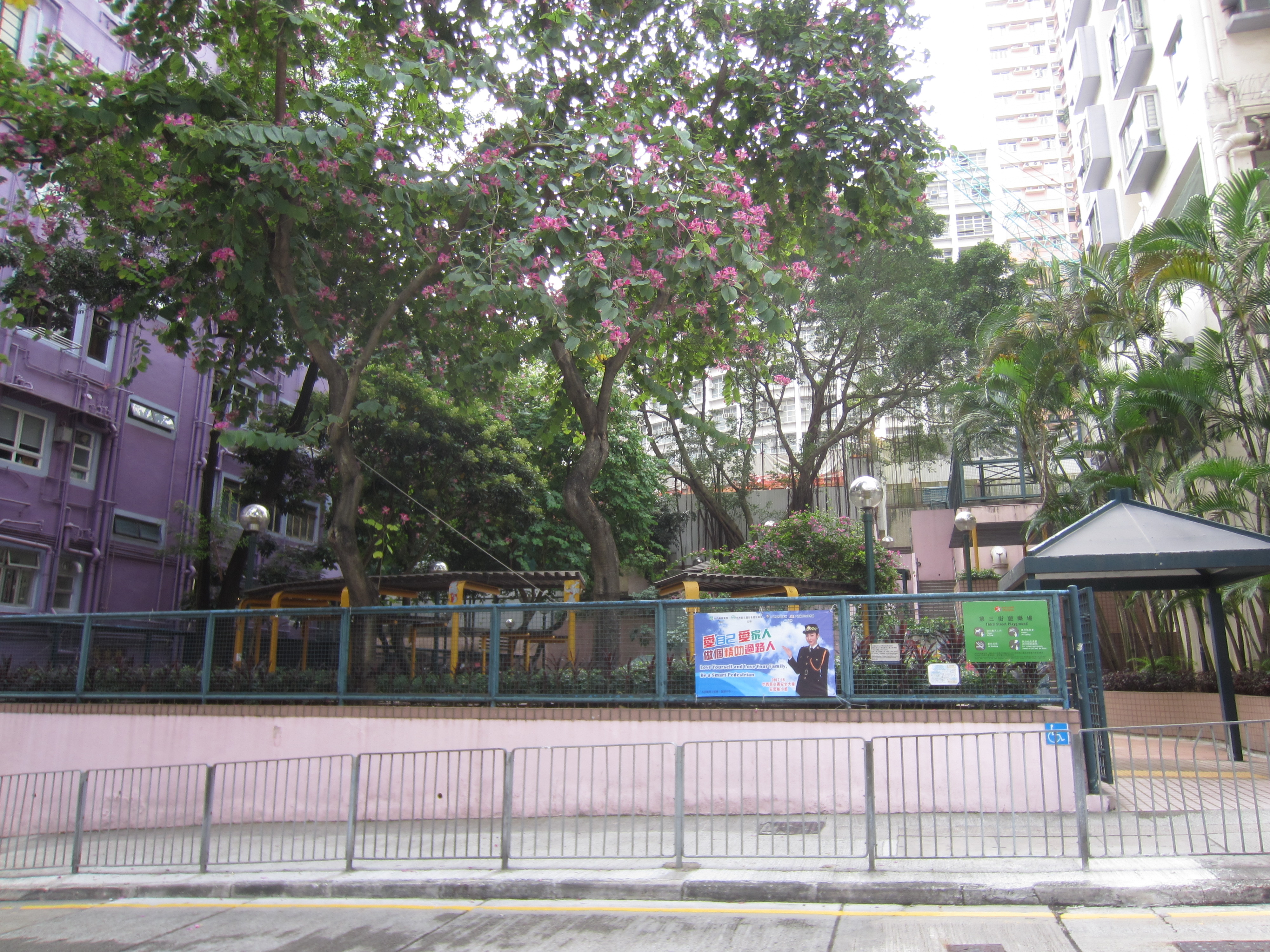 Hong Kong (November 2017)